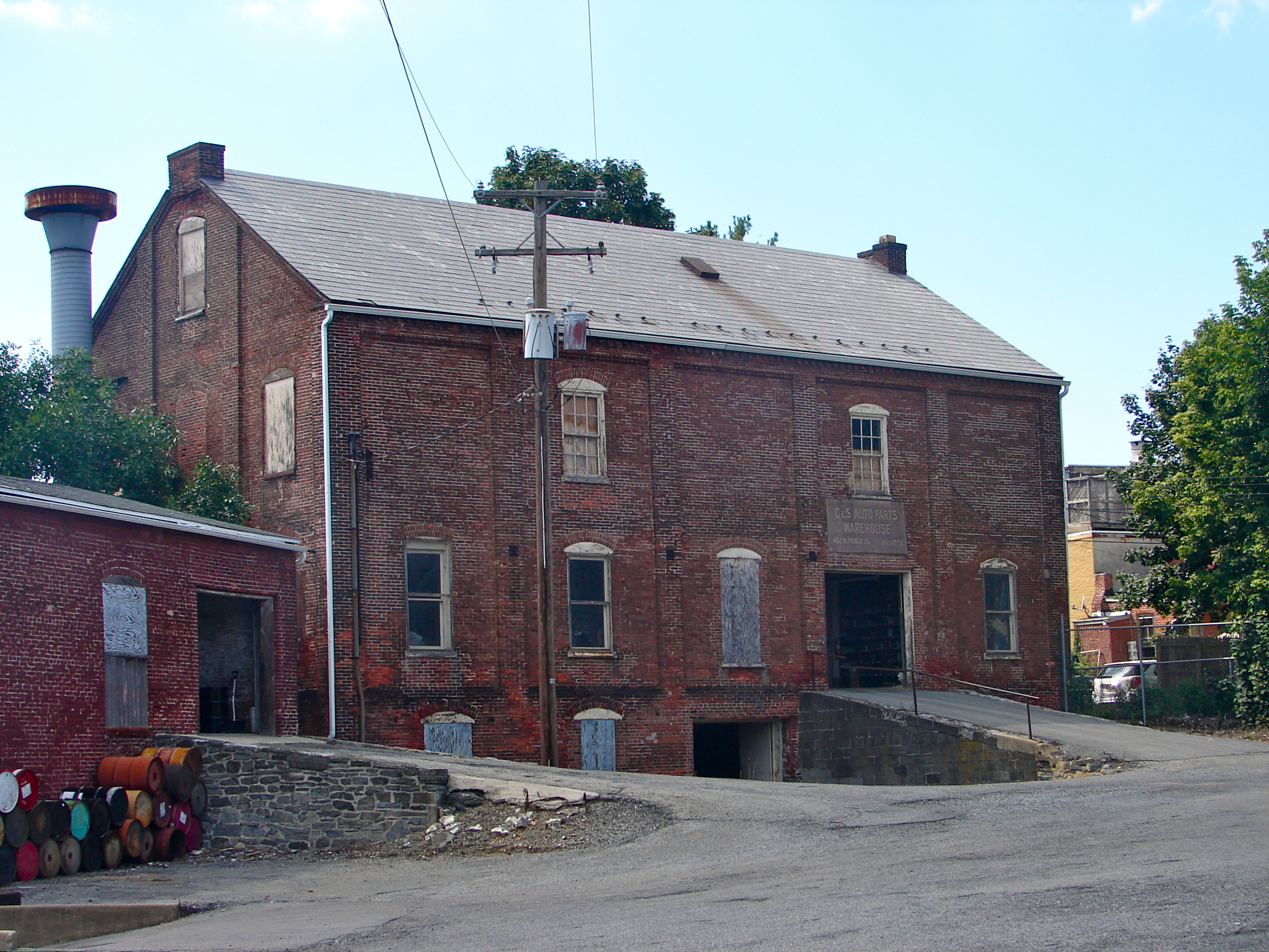 B. B. Martin Tobacco Warehouse on the NRHP since September 21, 1990. At 422–428 North Water Street in the Stadium District of Lancaster, Pennsylvania. Part of the NRHP Multiple submission for tobacco buildings in Lancaster.